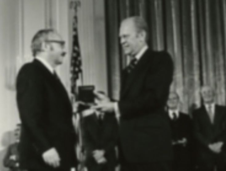 Gerald R. Ford awarded George B. Dantzig at the National Medal of Science Awards Ceremony, 1976